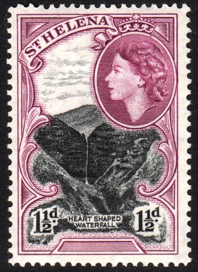 Stamp